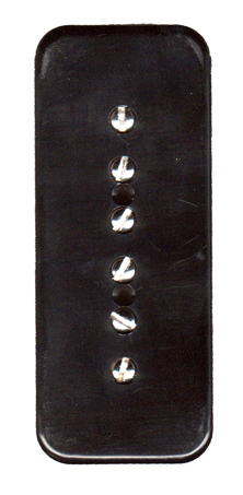 P90 pickup, single coil. (Seymour Duncan, Soapbar-3 neck)